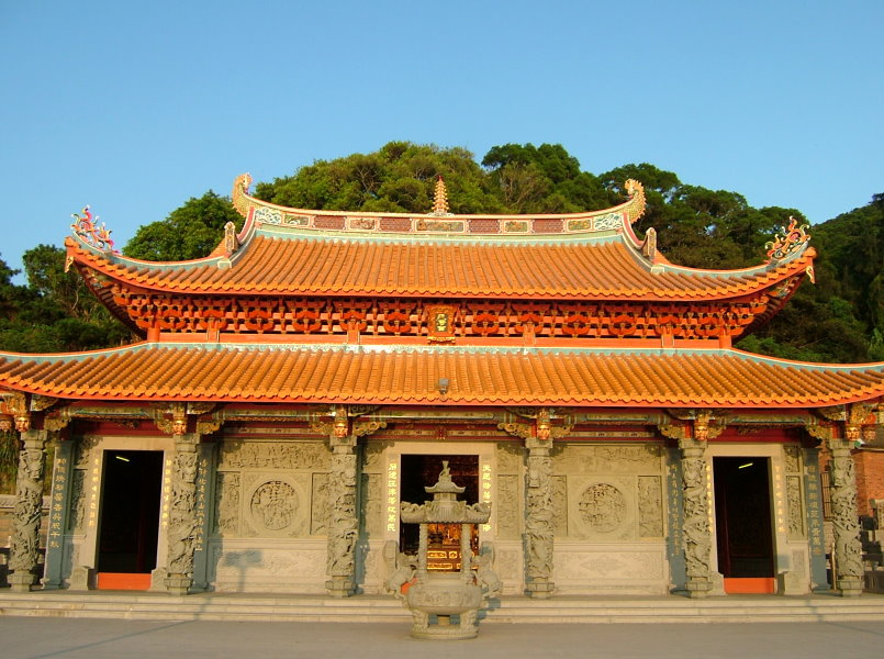 A temple dedicated to the goddess Mazu, Nangan